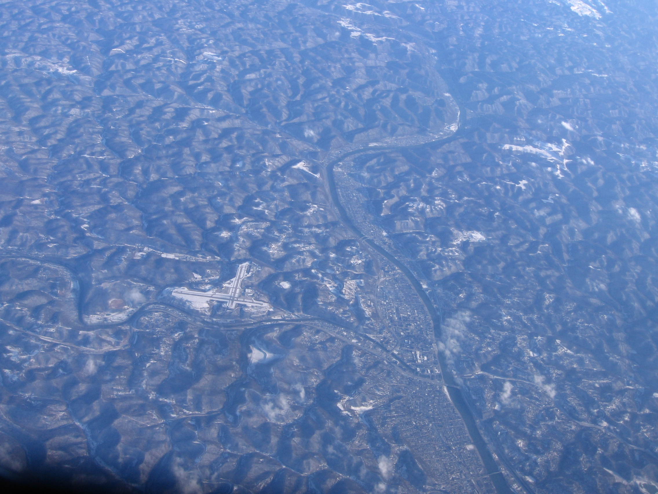 Charleston, WV looking southeast from cruise levels, DL1730 MD-88 service PIT-ATL